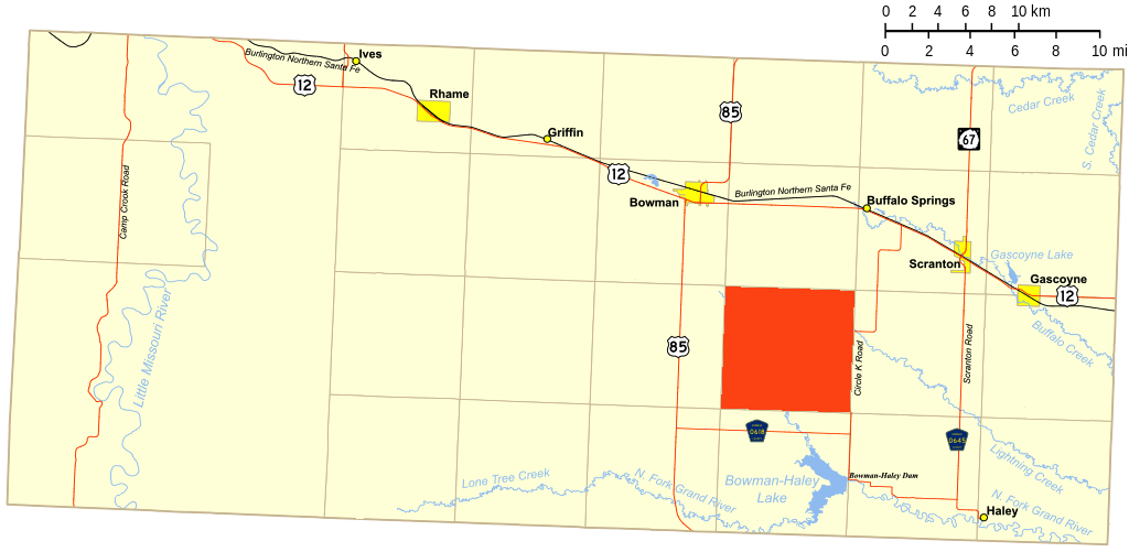 Map of Bowman County, North Dakota, with Boyesen Township highlighted